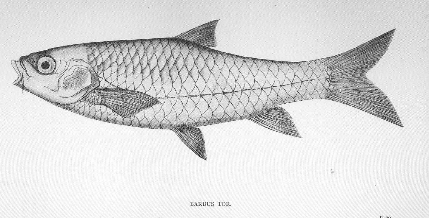 Barbus Tor Subject: Tor tor, Mahseers Tag: Fish